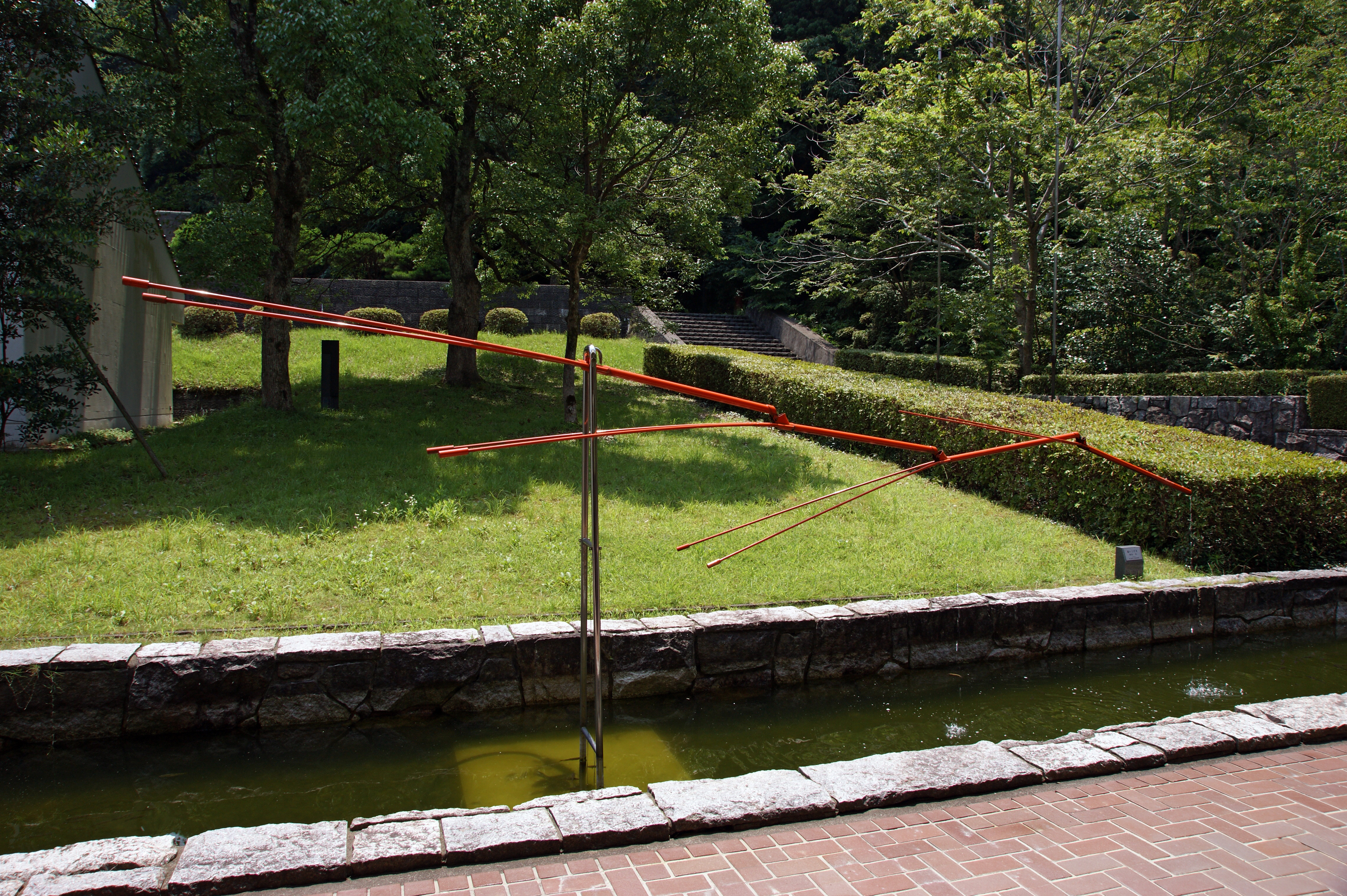 Kurayoshi Museum in Kurayoshi, Tottori prefecture, Japan